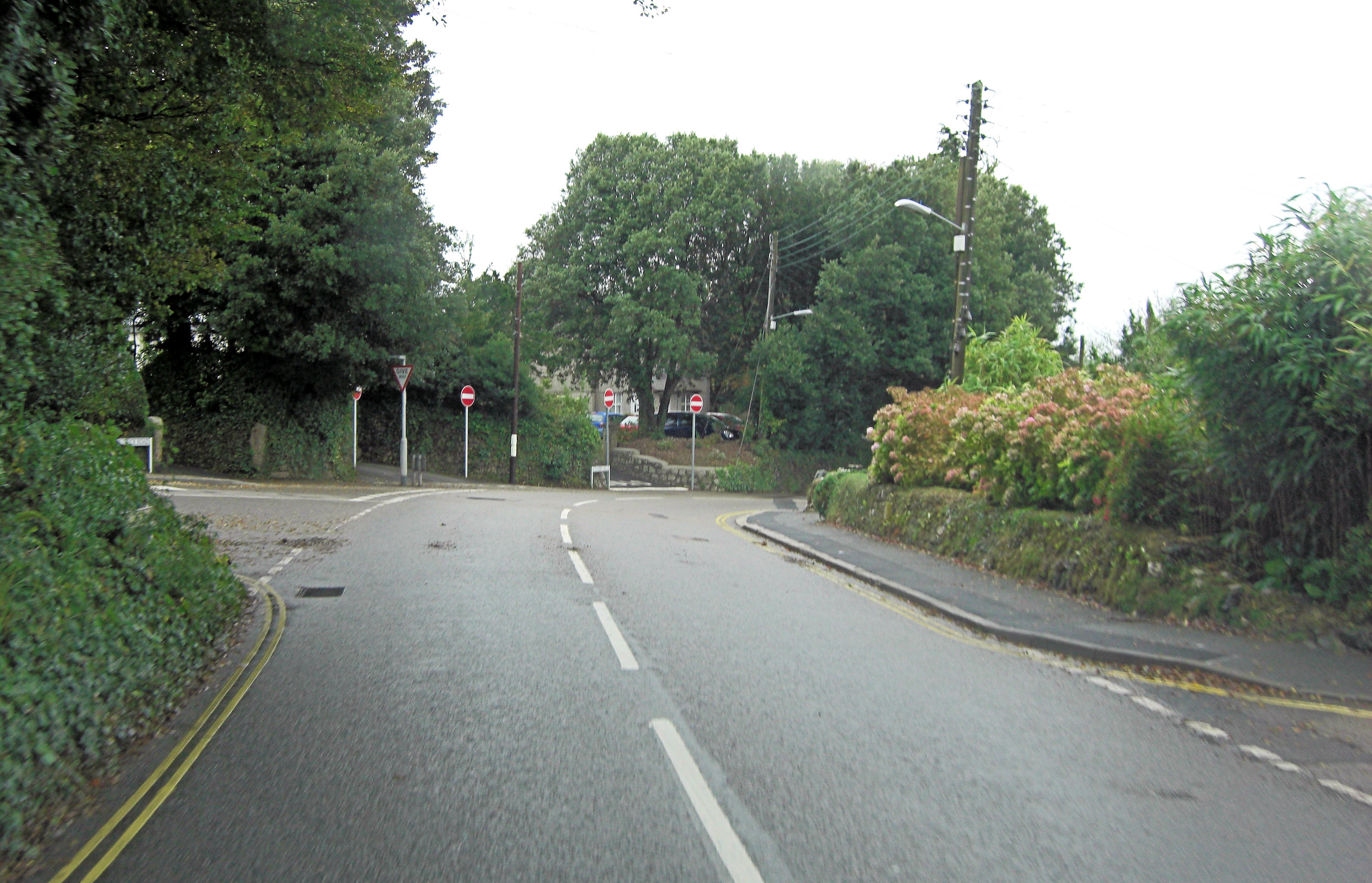 B3302 Mellanear Road junction with Trelissick Road